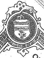 The first coat of arms of the town of Kazanlak - 1924